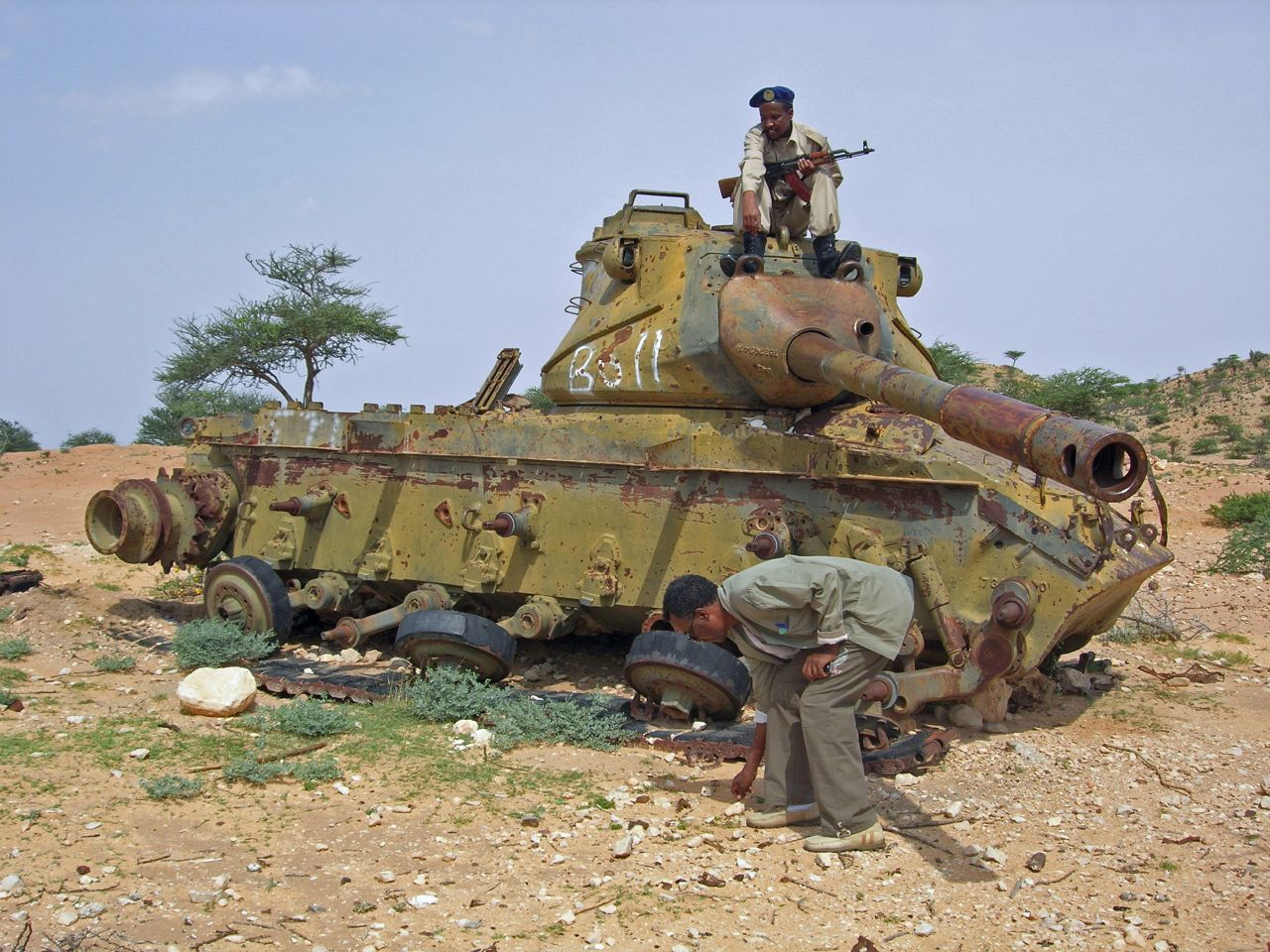 M47 Patton in Somali desert. Original caption states: The road sides are still littered with abandoned tanks and mine fields Taken in Somaliland